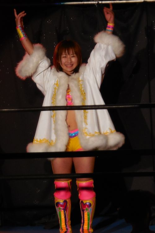 Japanese professional wrestler and model Yuzuki Aikawa in March 2013.